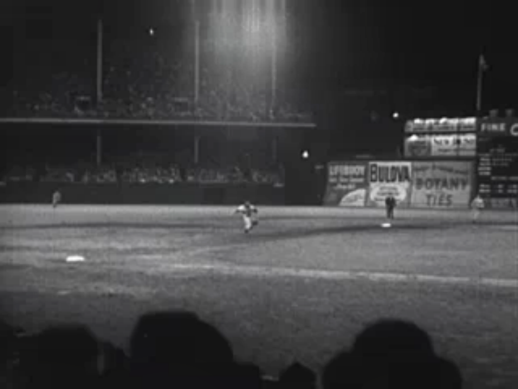 A night game at Ebbets Field, 1950. * Screen capture from the film located at: This movie is part of the collection: Prelinger Archives